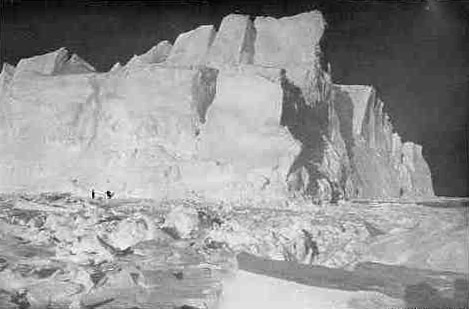 Photograph of an ice formation in the Weddell sea